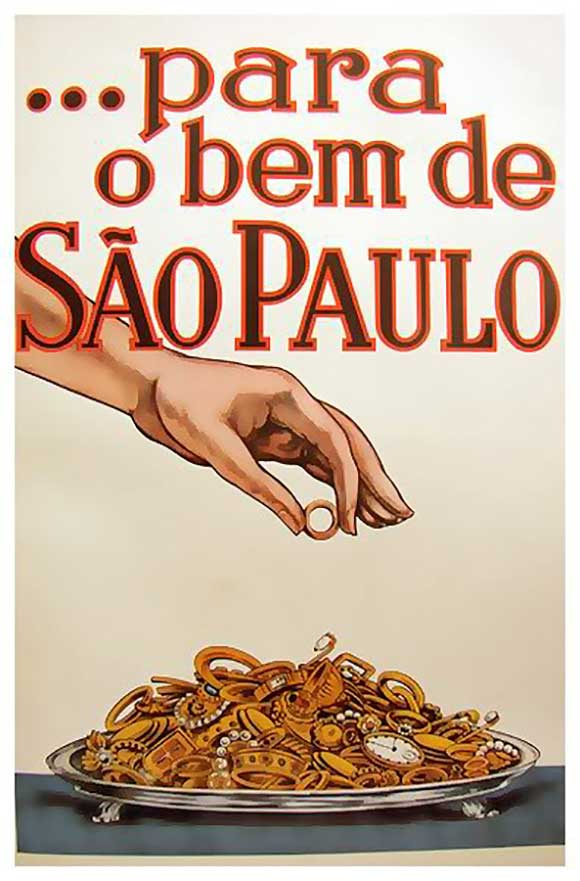 MMDC's Poster about the Constitutionalist Revolution of 1932